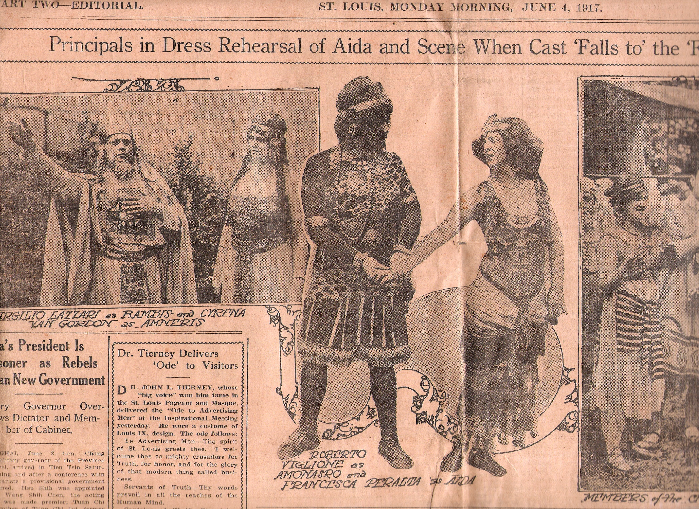 Roberto Viglione (Amonasro) and Francesca Peralta (Aida) (St. Louis, June 4, 1917)